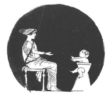 Mother and child in a Greek pottery